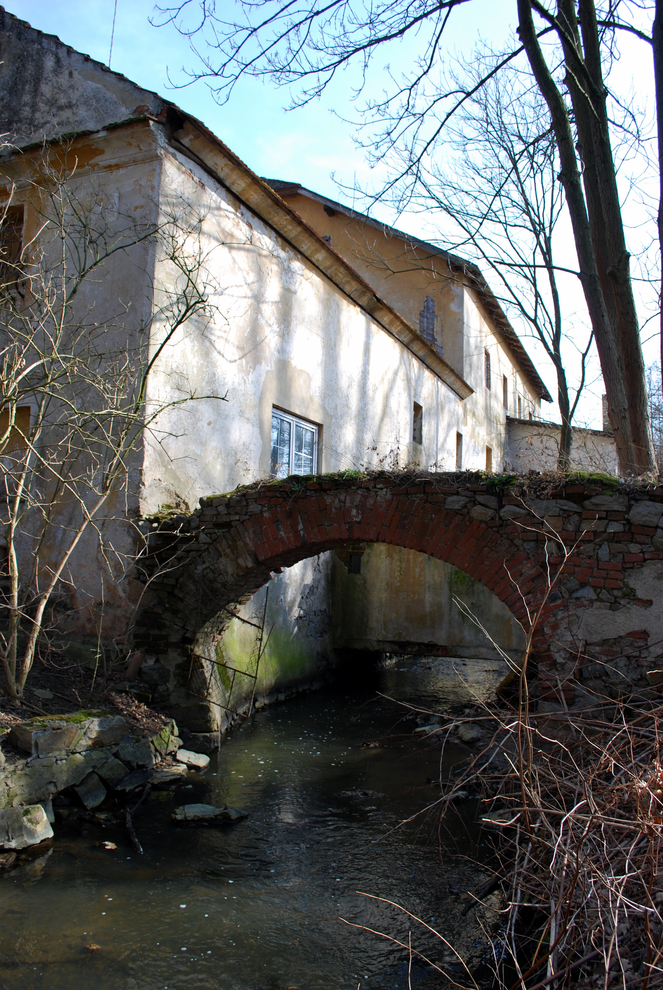 Záblatí village, Jindřichův Hradec District, Czech Republic. This photograph was taken within the scope of the 'Czech Municipalities Photographs' grant.